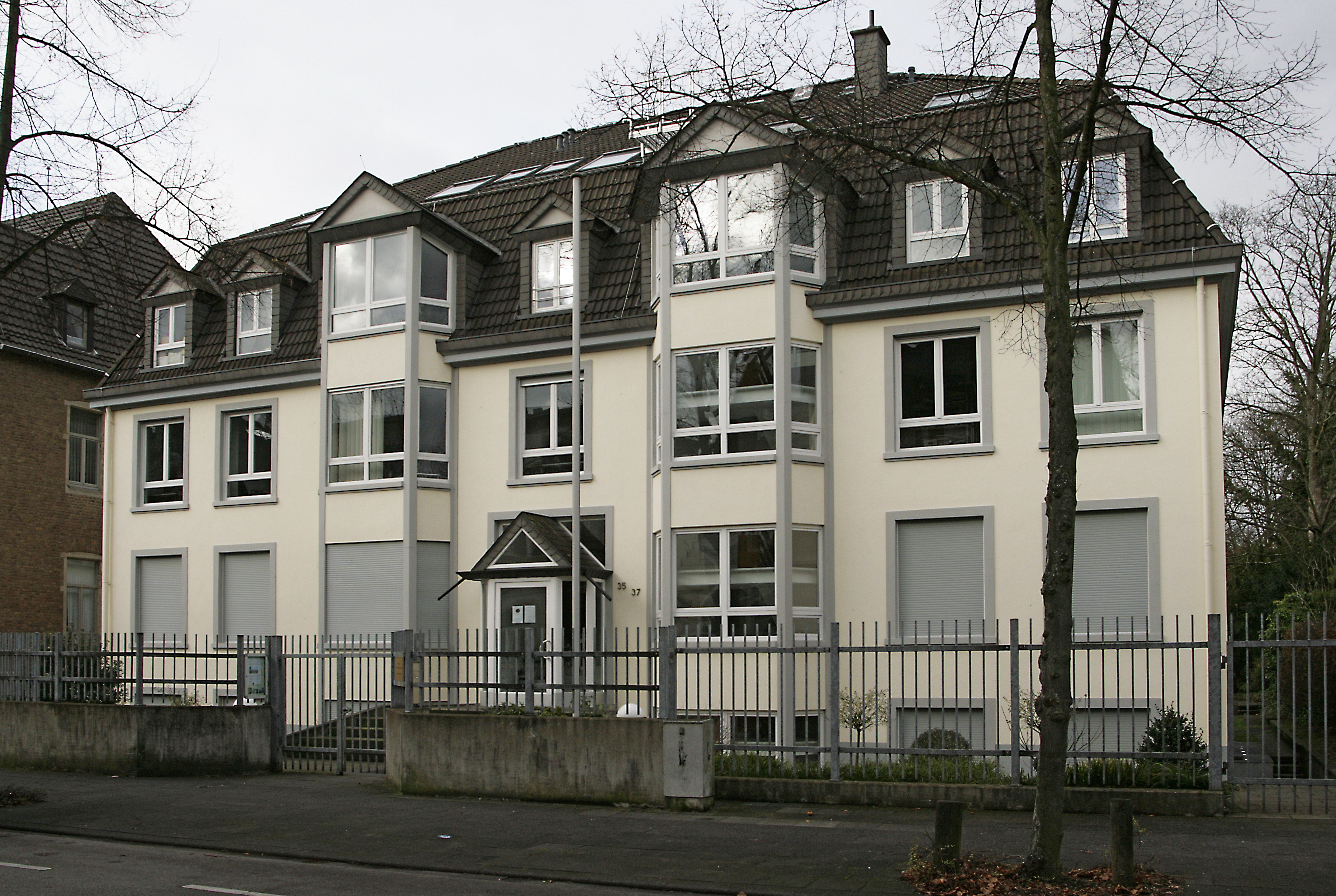 duplex house Dürenstrasse 35/37, Bonn-Bad Godesberg